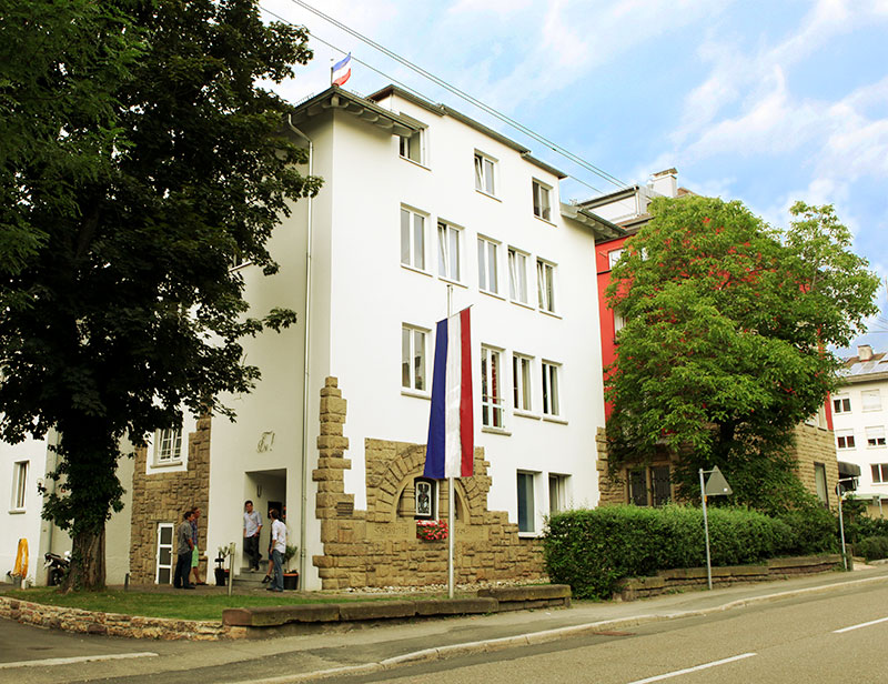 picture of the house of the Landsmannschaft Saxonia Stuttgart, Birkenwaldstr. 111, in 2010